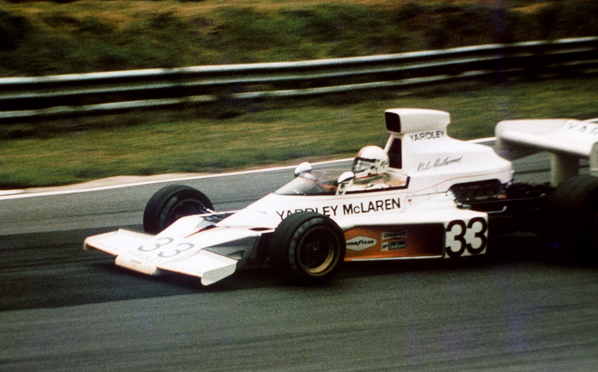 Mike Hailwood (GB) at the Simoniz Daily Mail Race of Champions driving for Yardley Team McLaren (GB). The car is a McLaren M23 #M23/1 - Ford Cosworth DFV V8